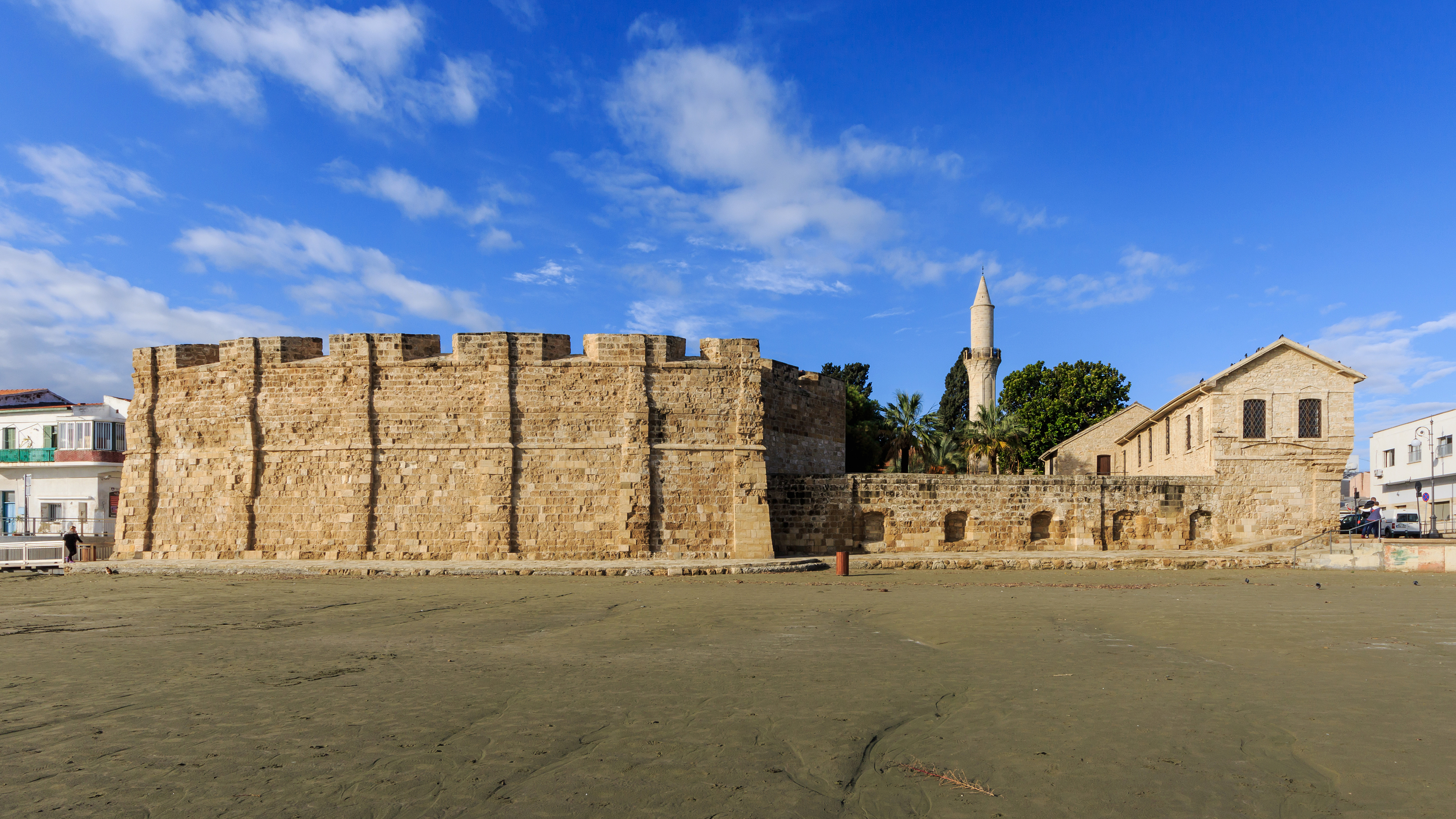 The Fort and the minaret of Kebir (Buyuk) Mosque in Larnaca, Cyprus